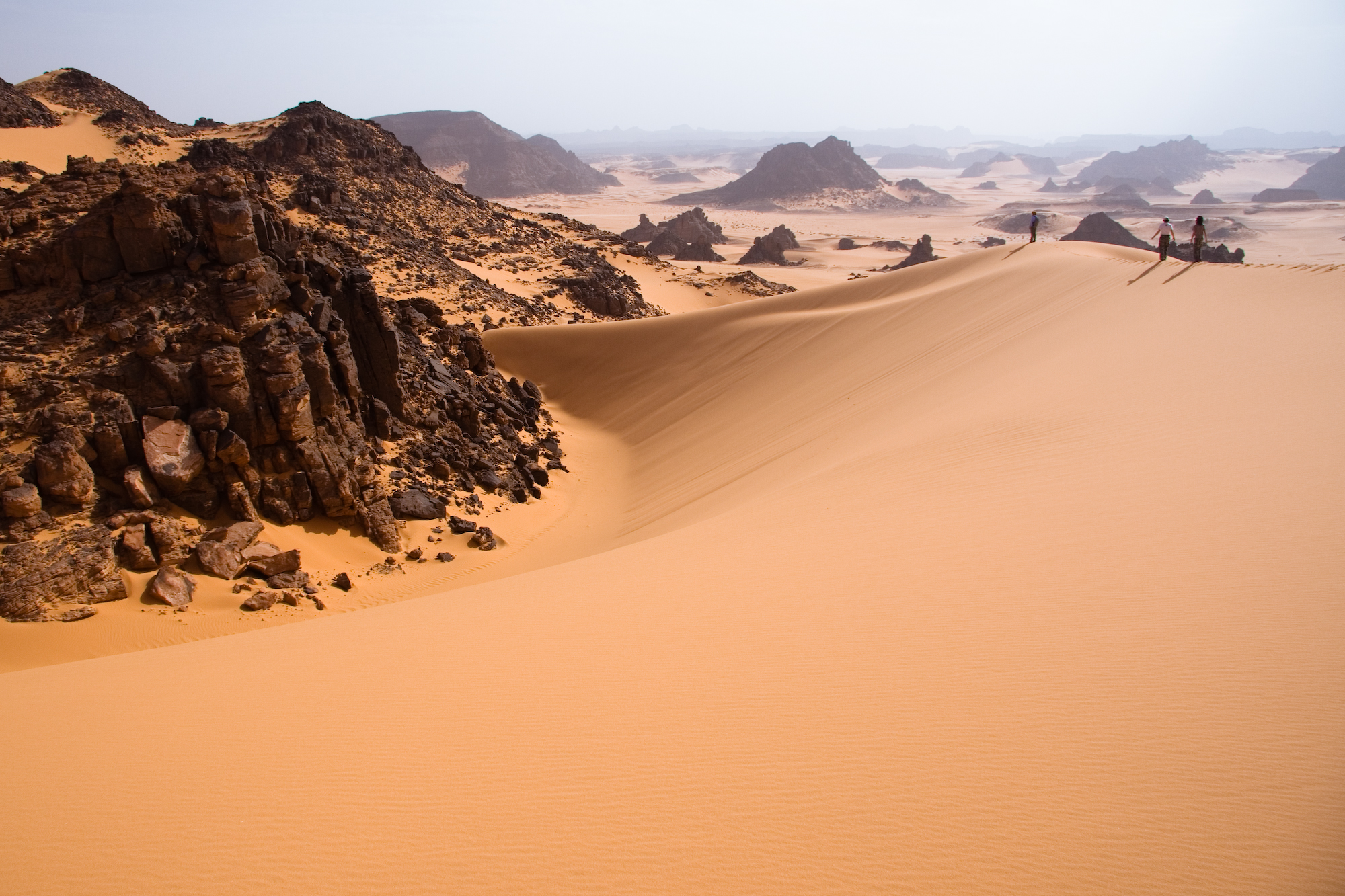 Walking the ridge of soft sand dunes in Tadrart Acacus a desert area in western Libya, part of the Sahara.